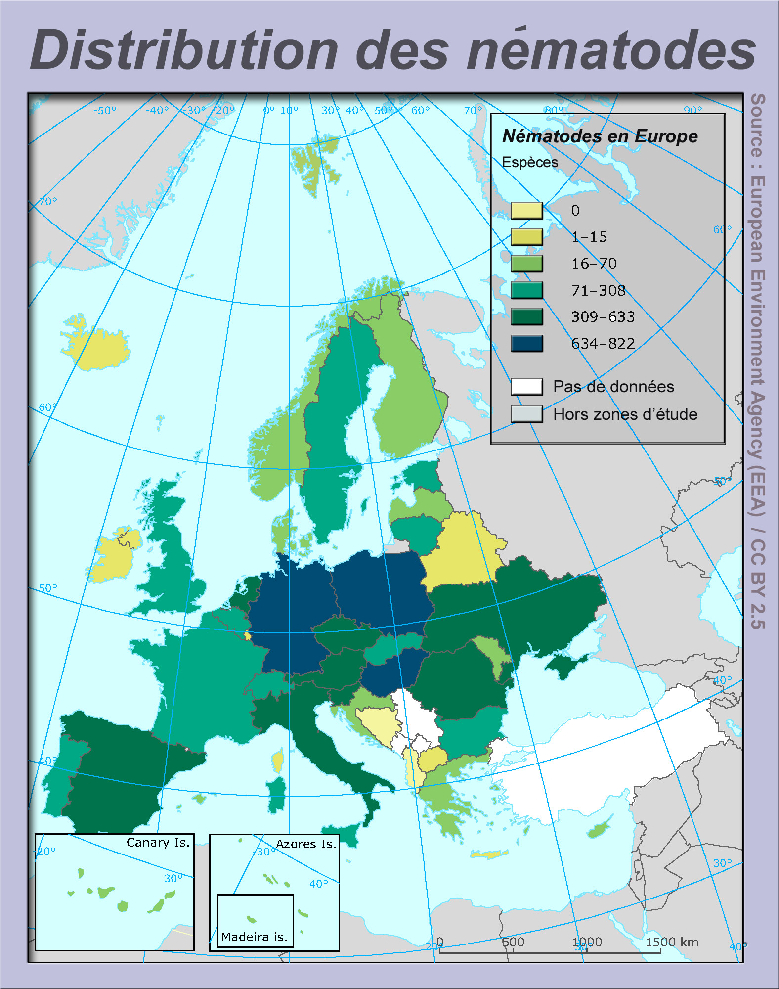 Map showing the distribution of Nematodes. Source : EEA, CC-by-2.5, retrieved 2011-10-22